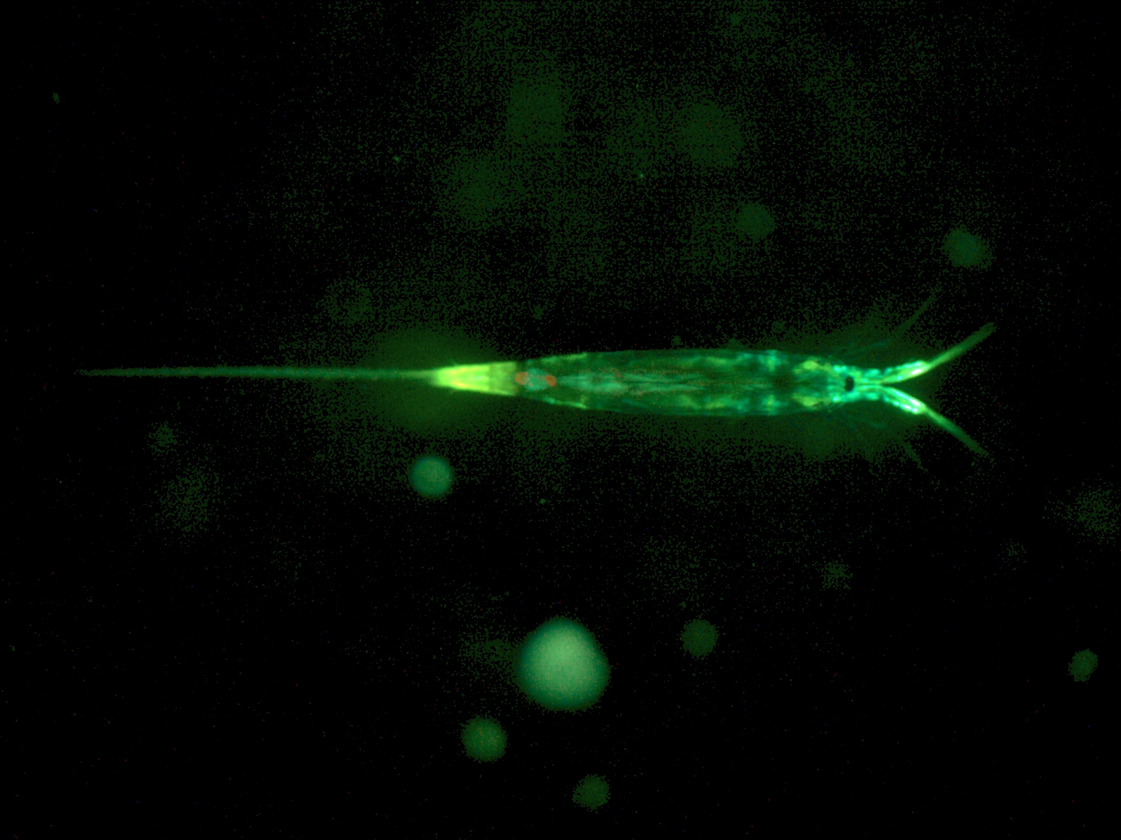 Planktonic copepod, most likely Microsetella sp., with green and yellow fluorescence. Gulf of Mexico.